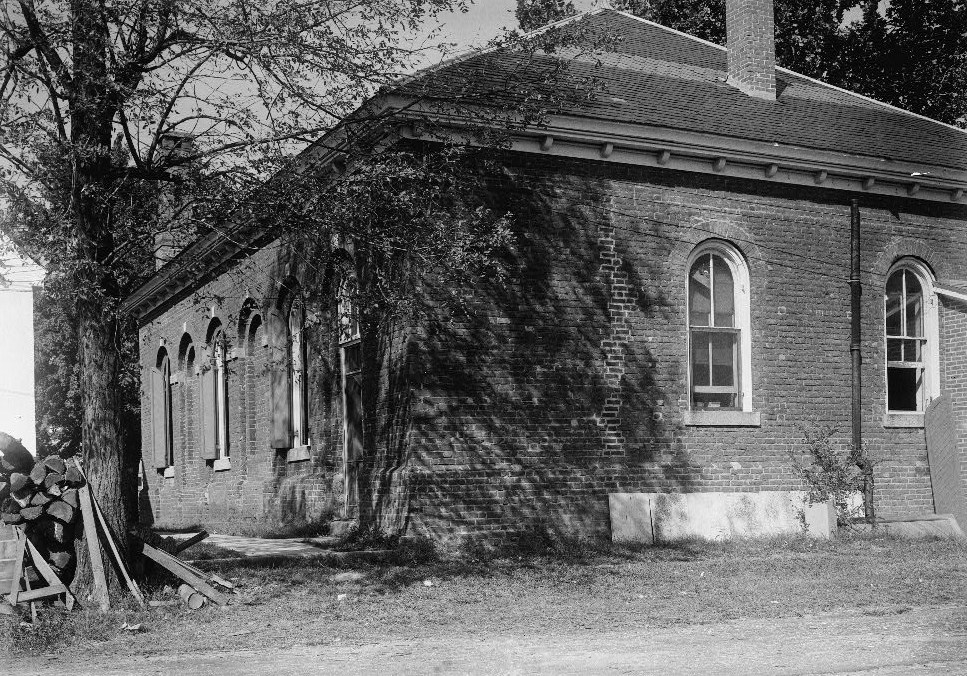 Richmond County Courthouse, U.S. Route 360, Warsaw (Richmond County, Virginia) cropped, HABS VA,80-WAR,3-1 This file comes from the Historic American Buildings Survey (HABS), Historic American Engineering Record (HAER) or Historic American Landscapes Survey (HALS). These are programs of the National Park Service established for the purpose of documenting historic places. Records consist of measured drawings, archival photographs, and written reports. When reusing please credit: Library of Congress, Prints & Photographs Division, VA-896 This tag does not indicate the copyright status of the attached work. A normal copyright tag is still required. See Commons:Licensing for more information. This work is in the public domain in the United States because it is a work prepared by an officer or employee of the United States Government as part of that person’s official duties under the terms of Title 17, Chapter 1, Section 105 of the US Code. See Copyright. Note: This only applies to original works of the Federal Government and not to the work of any individual U.S. state, territory, commonwealth, county, municipality, or any other subdivision. This template also does not apply to postage stamp designs published by the United States Postal Service since 1978. (See § 313.6(C)(1) of Compendium of U.S. Copyright Office Practices). It also does not apply to certain US coins; see The US Mint Terms of Use. This file has been identified as being free of known restrictions under copyright law, including all related and neighboring rights.